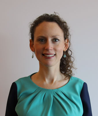 Official portrait of Marie Sherlock TD used on the Houses of the Oireachtas website.